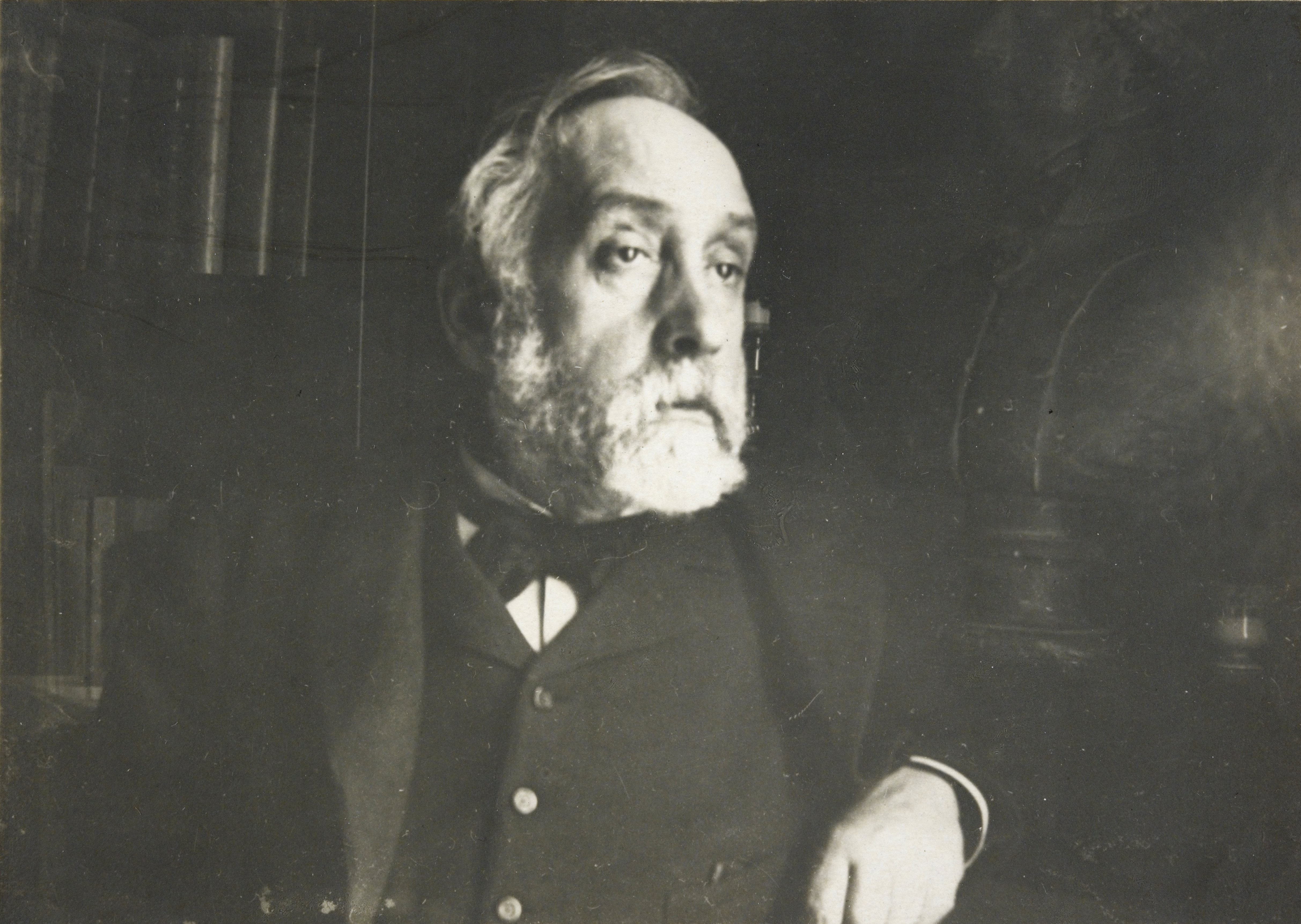 Photographic self-portrait by Edgar Degas, the French painter, gelatin silver print. 4 11/16 in. x 6 9/16 in. Harvard Art Museum/Fogg Museum, Richard and Ronay Menschel Fund for the Acquisition of Photographs. Courtesy of the President and Fellows of Harvard College.